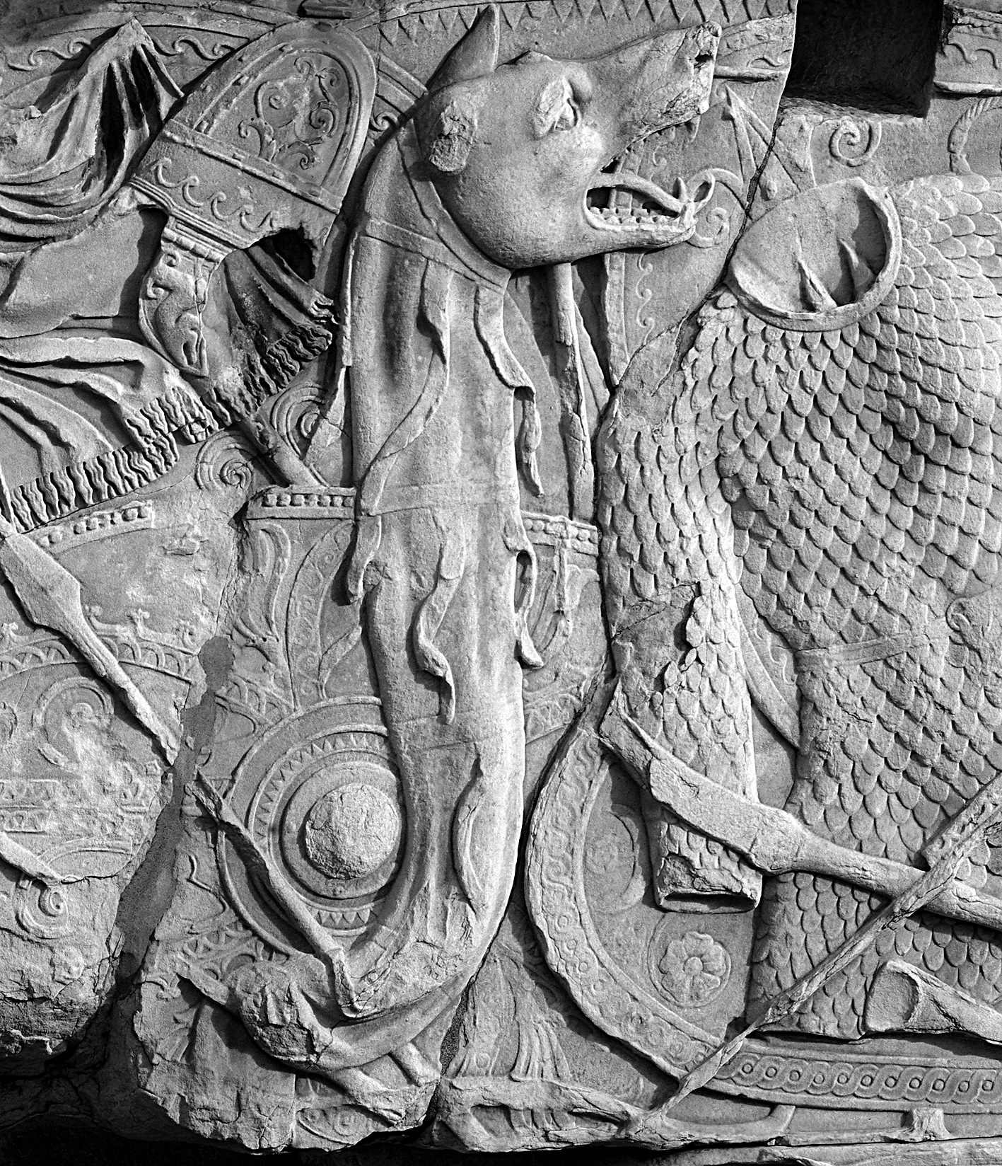 Reliefs of Trajan's Column.